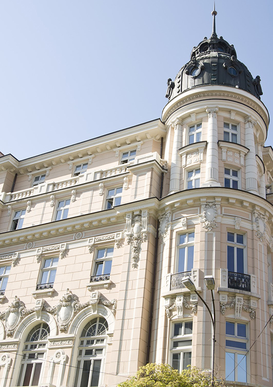 Sofia Chamber of Commerce and Industry, 2 Slavyanska str.